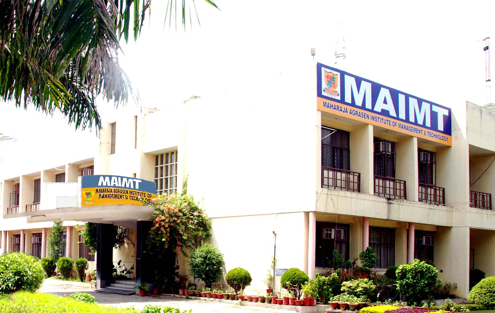 this image can be used anywhere if it is used for providing information about this institute